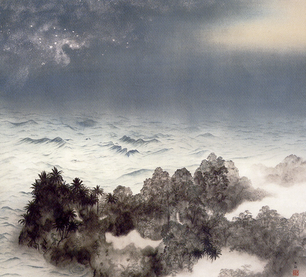 Yokoyama Taikan: Night at South Sea, 1944. Color on paper, 81x90 cm. National Museum of Modern Art, Tokyo